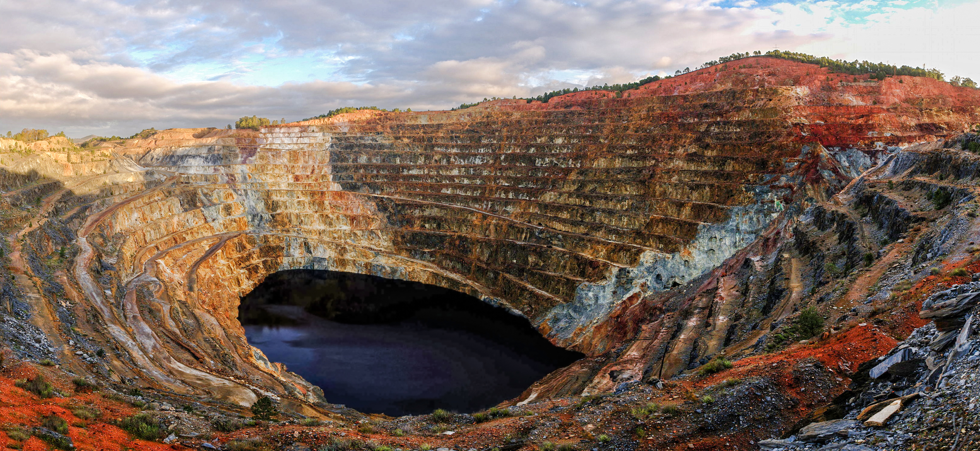 Panoramic view of the Corta Atalaya.